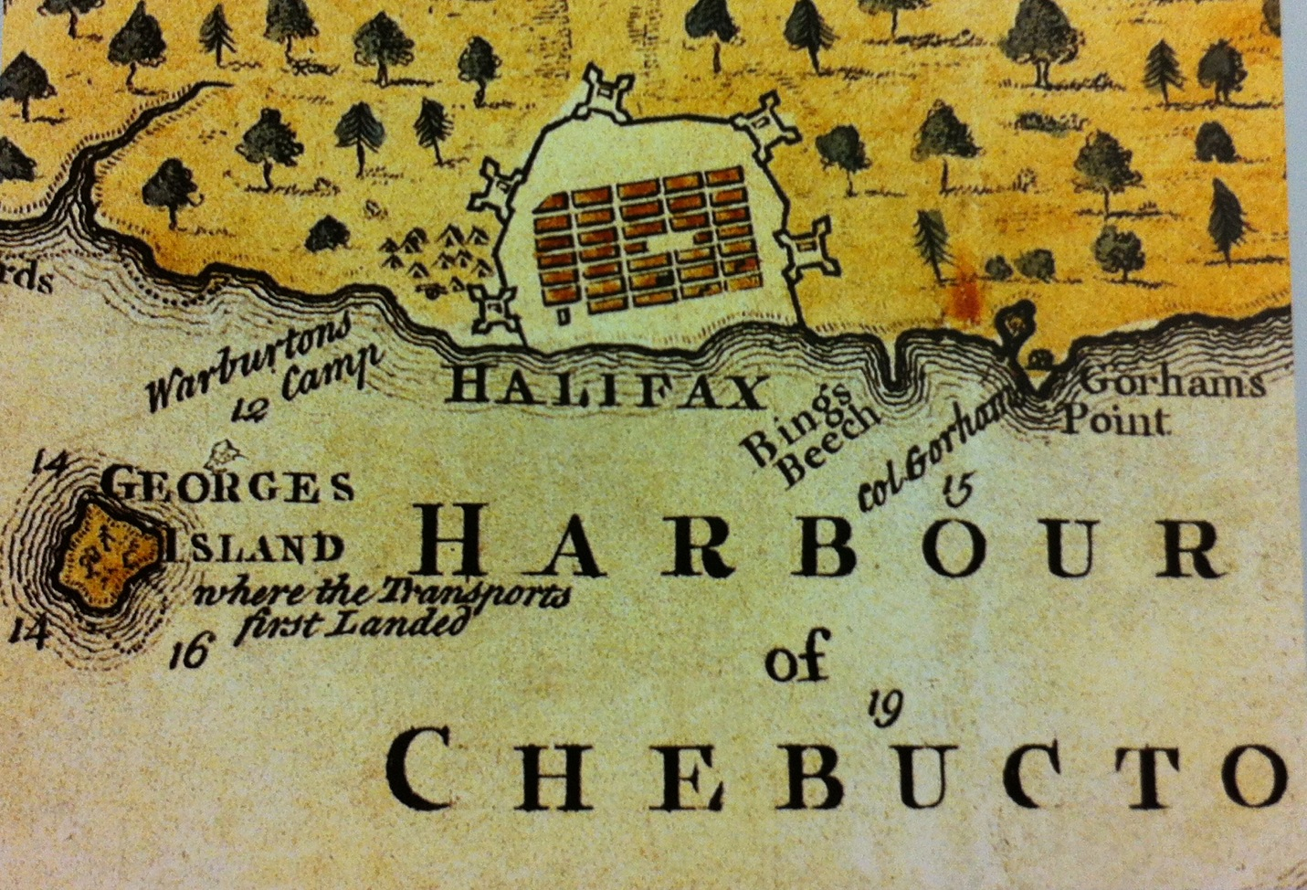 Map of Halifax, Nova Scotia, 1750 inset